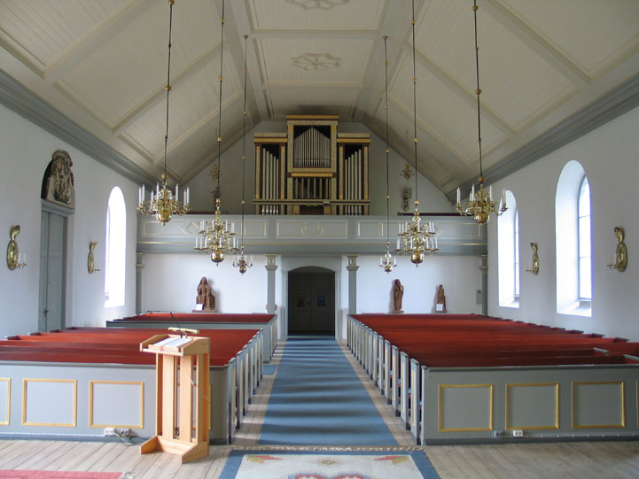 Fivelstads Church.Interior.